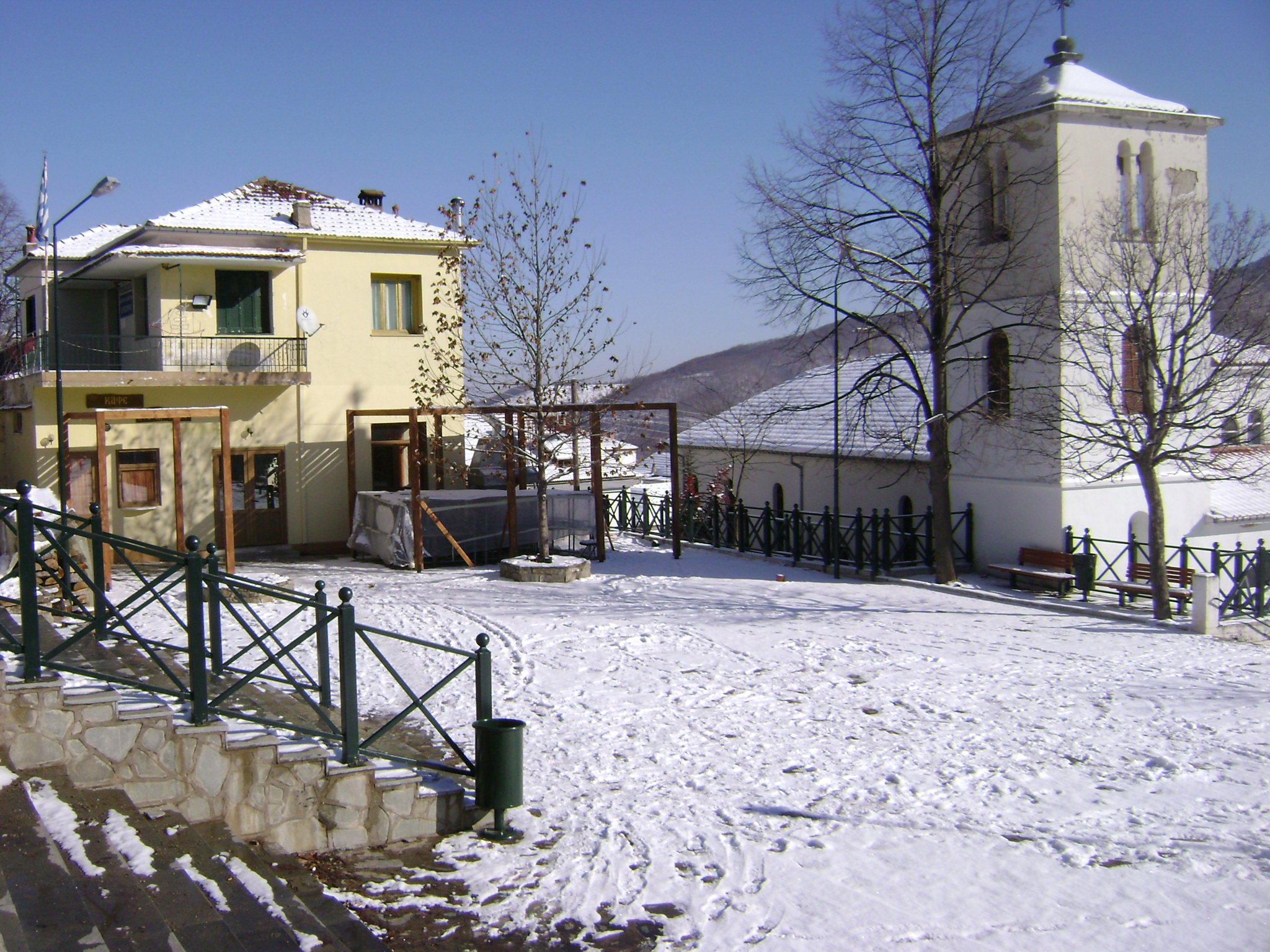 Church in Drosopigi, Florina prefecture, Macedonia region, Greece